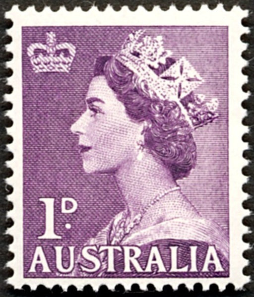 A postage stamp of Australia issued 1953